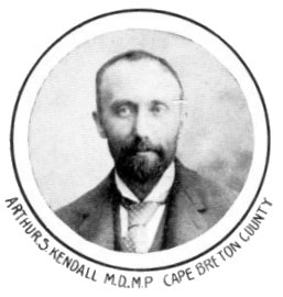 Arthur S. Kendall, Member of Parliament for Cape Breton County, Nova Scotia